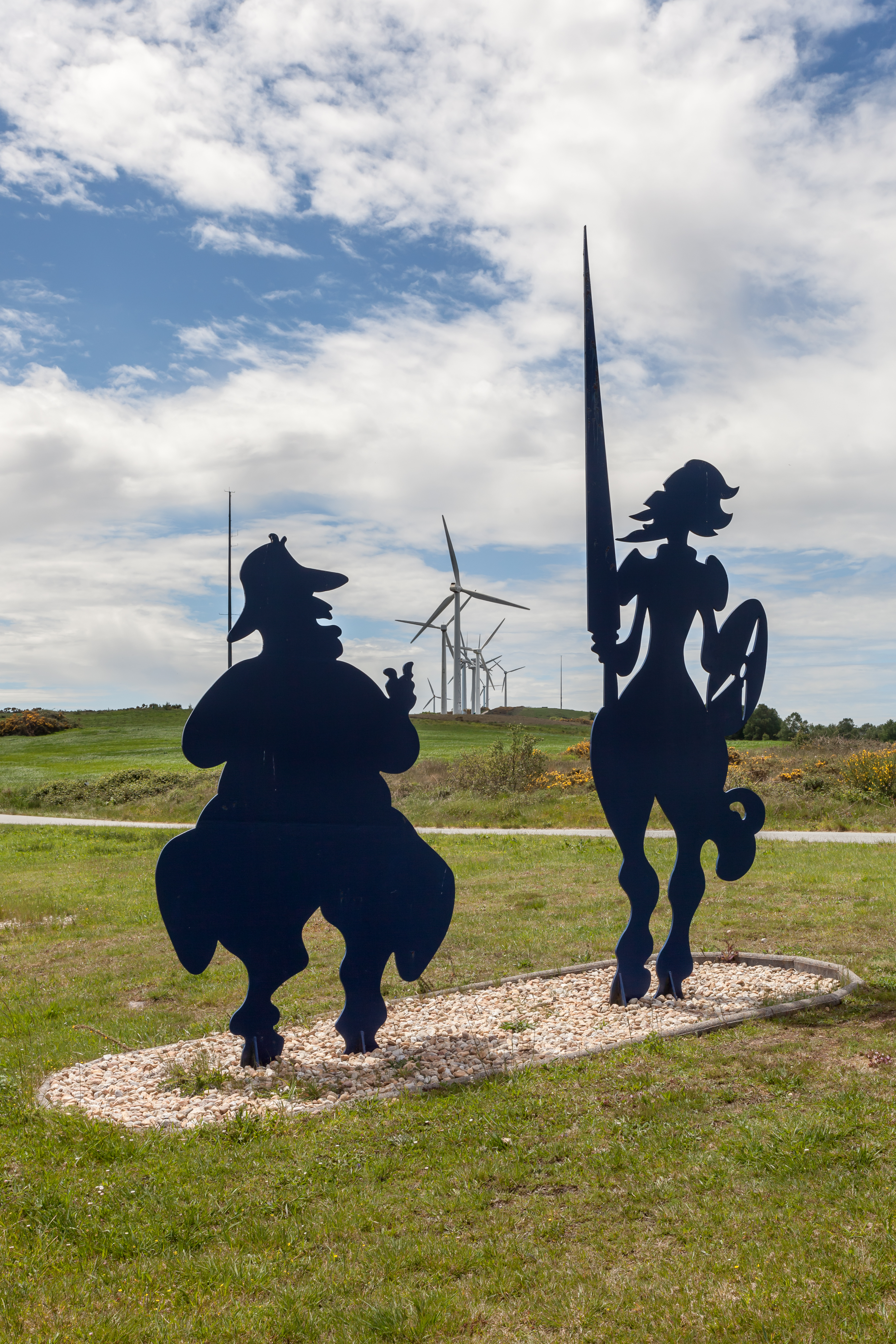 Don Quijote and Sancho with wind turbines. Sotavento, Xermade, Galicia (Spain)